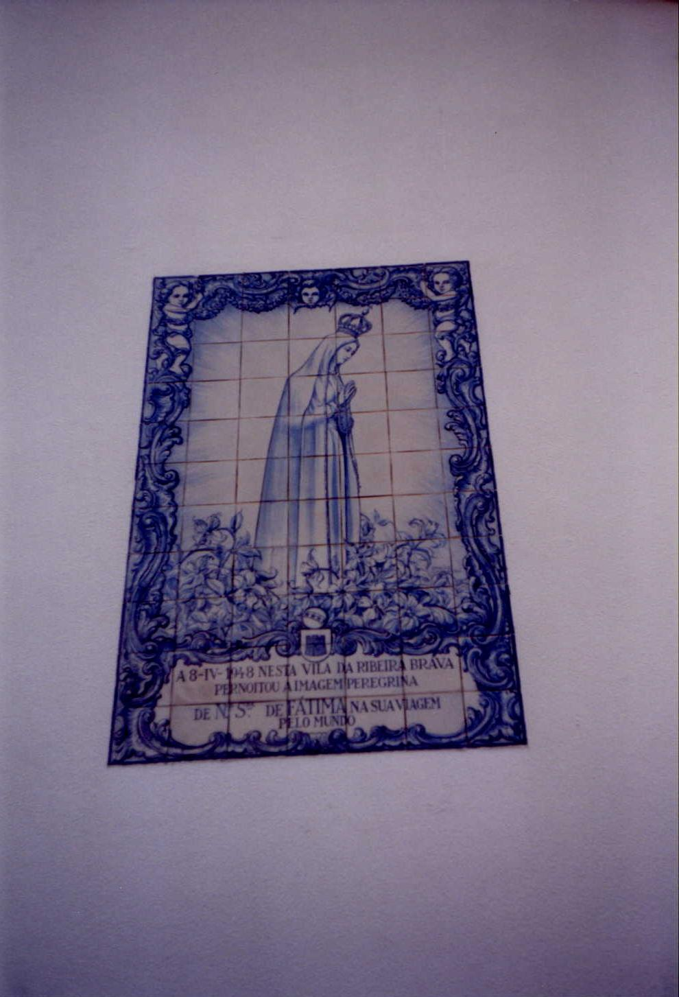 Azulejo from Ribeira Brava.